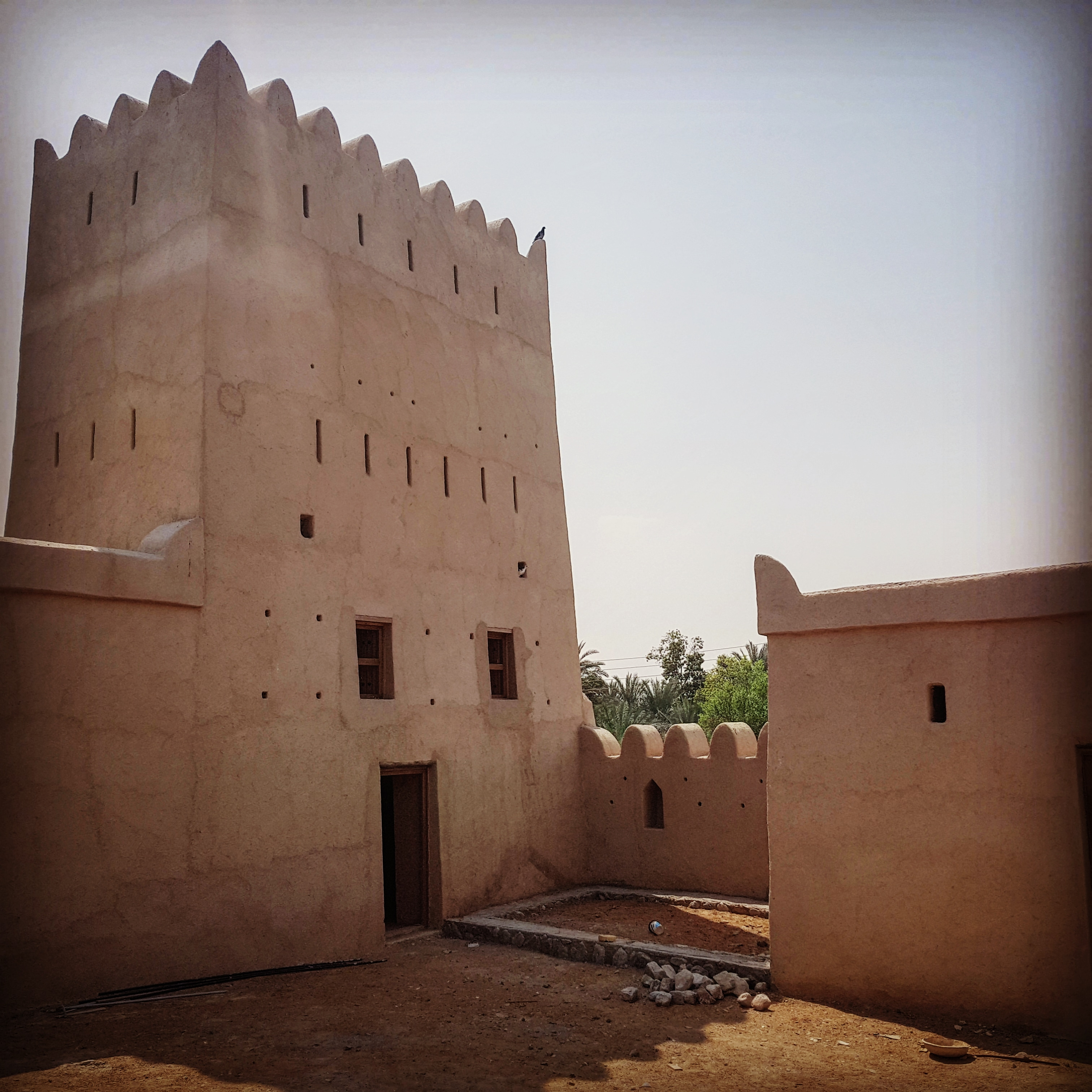 Fort at Habhab, Fujeirah.